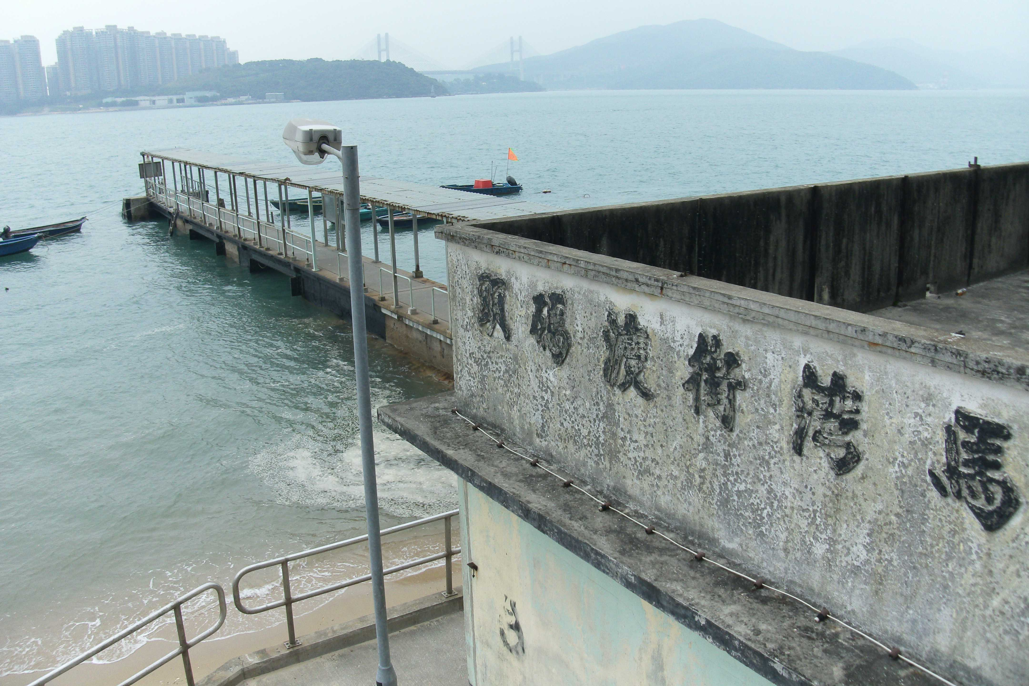 Ma wan pier at sham tseng